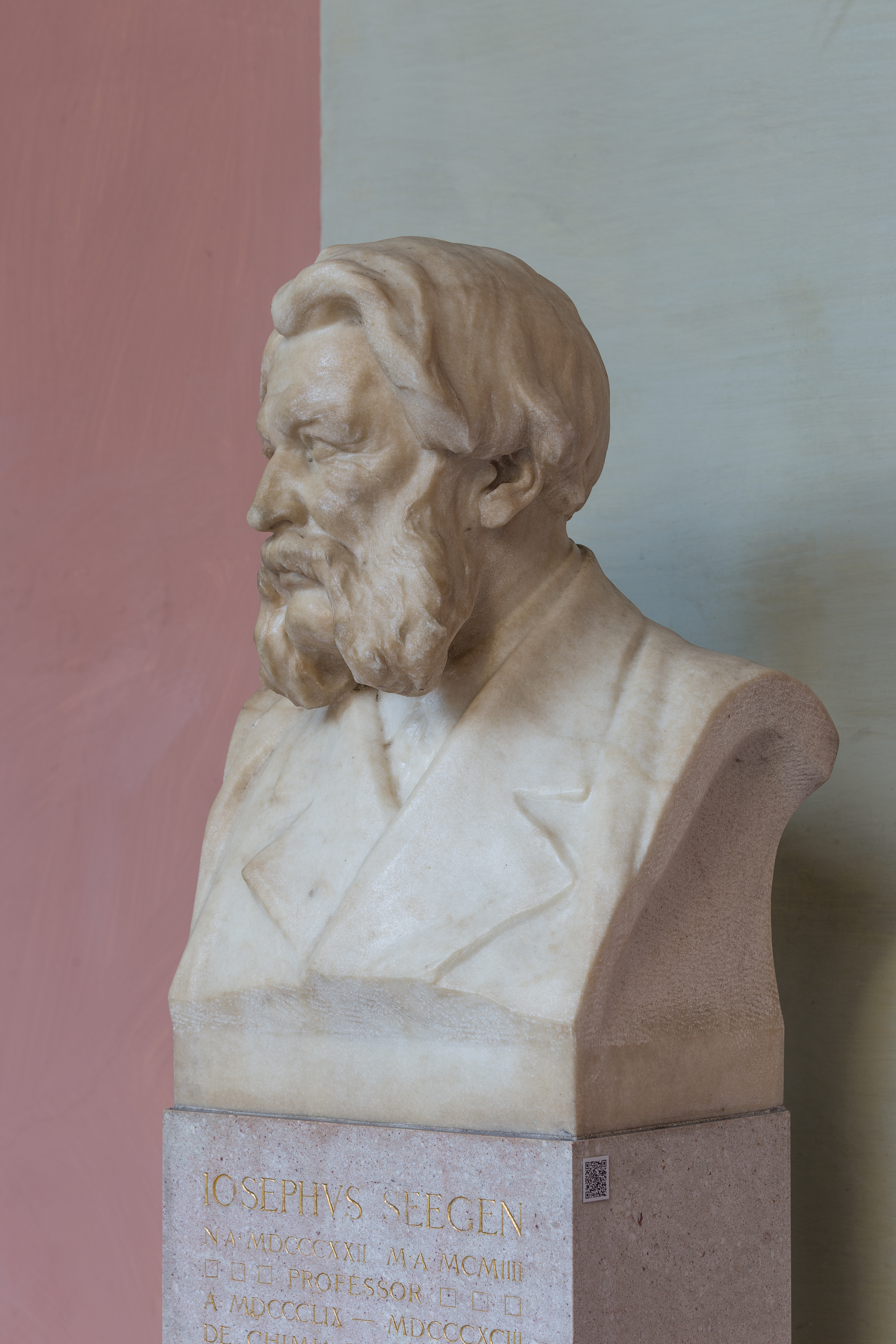 Josef Seegen (1822-1904), bust (marble) in the Arkadenhof of the University of Vienna, (Maisel# 72). Artist: Richard Kauffungen (1854-1942), unveiled 1910